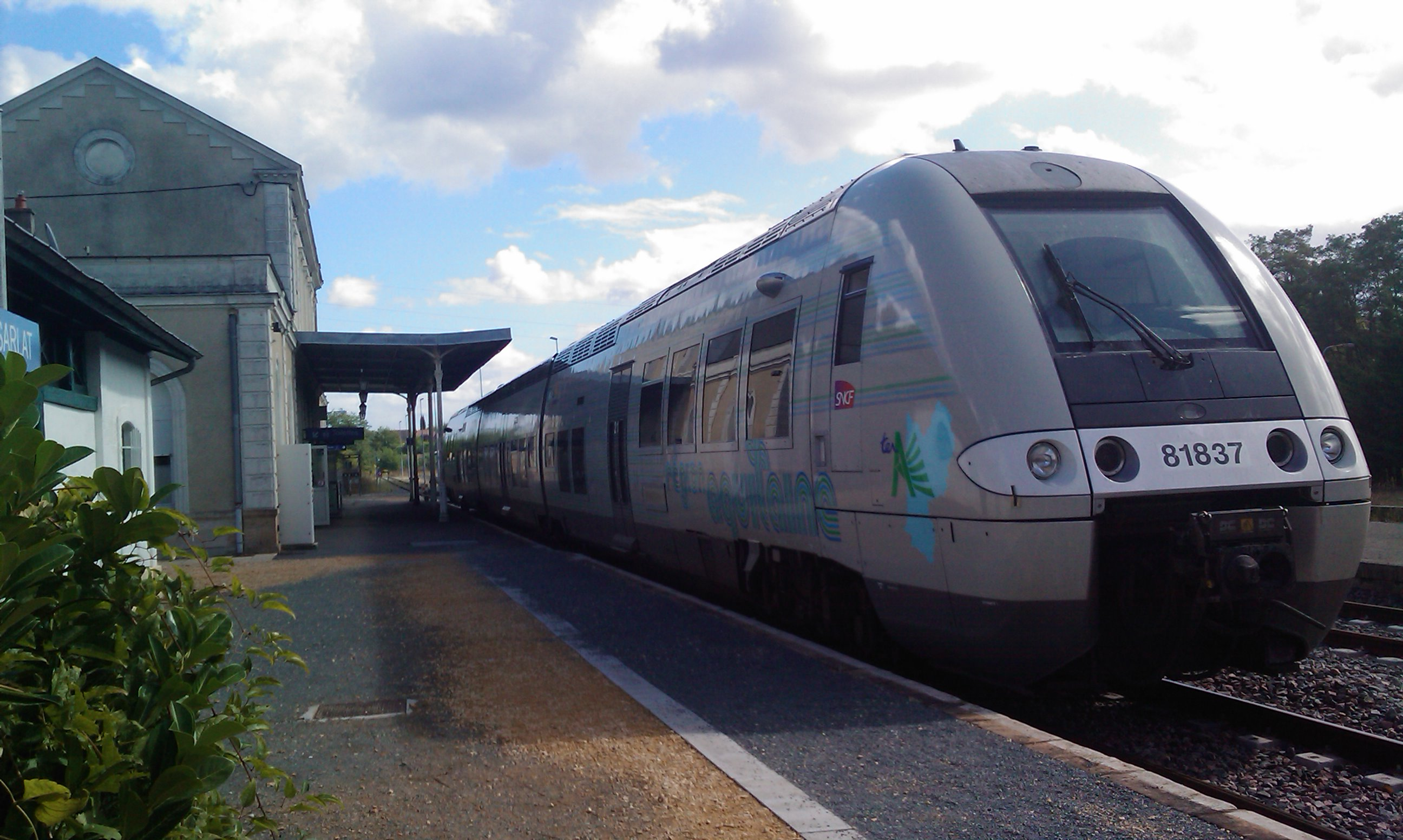 AGC Aquitain en gare de Sarlat le 27 septembre 2012